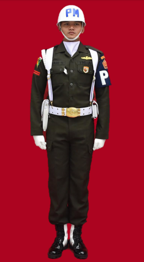 The uniform of the Indonesian Military Police Corps worn during parades and ceremonies when escorting the President of Indonesia/Vice President/and foreign heads of state during State visits or other state-level ceremonies/occasions